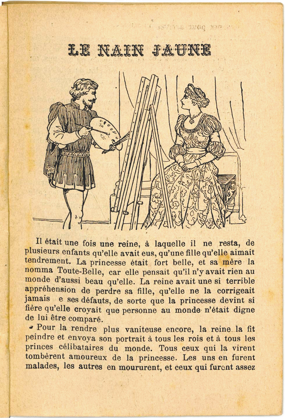 First page of Marie-Catherine d'Aulnoy’s Le Nain jaune.